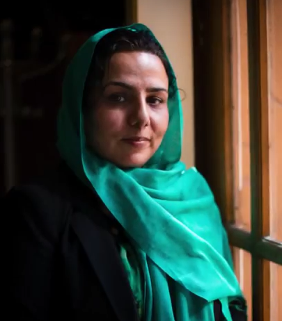 Mary Akrami Antonio Amendola meets Mary Akrami in Kabul (June 20th 2012)